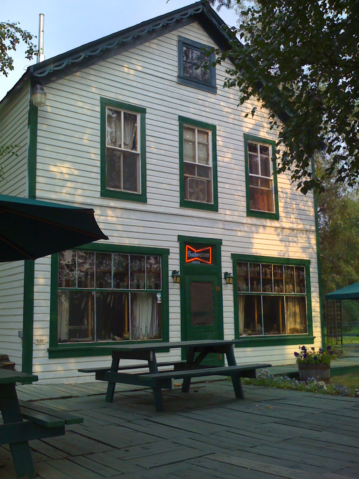 Manley Roadhouse was built in 1903 and is the only place to buy gasoline, eat, or obtain facilities in Manley Hot Springs.